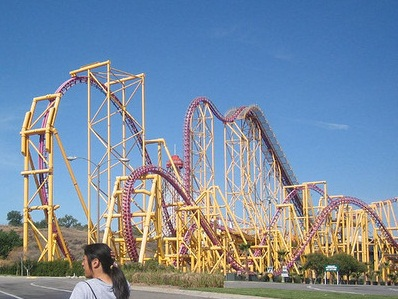 An overview of X (now X2) at Six Flags Magic Mountain in Valencia, California.